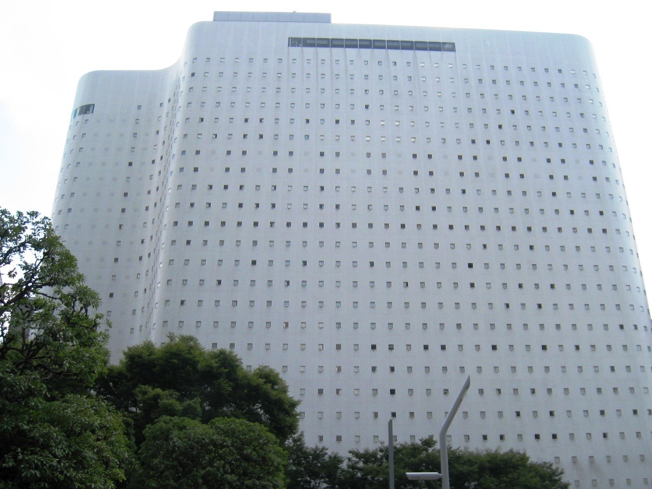 The Shinjuku Washington Hotel's main building. Shinjuku, Tokyo)